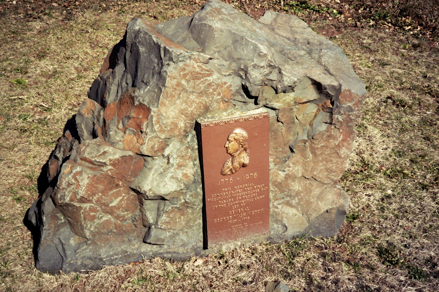 Historical marker for July 4, 1778 parade by the Continental Army from Piscataway to New Brunswick.